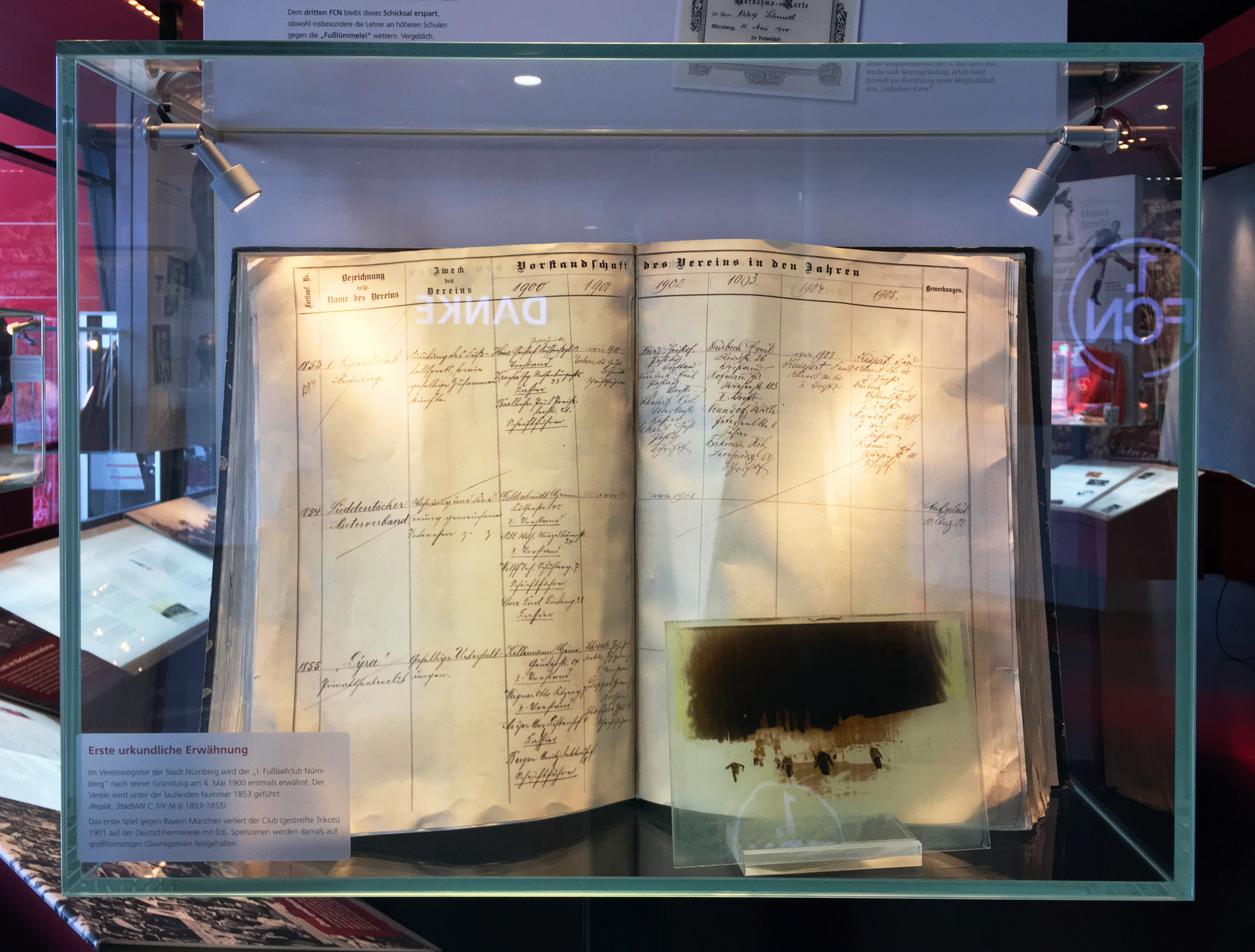 Club register of the city of nuremberg in the Club-Museum.